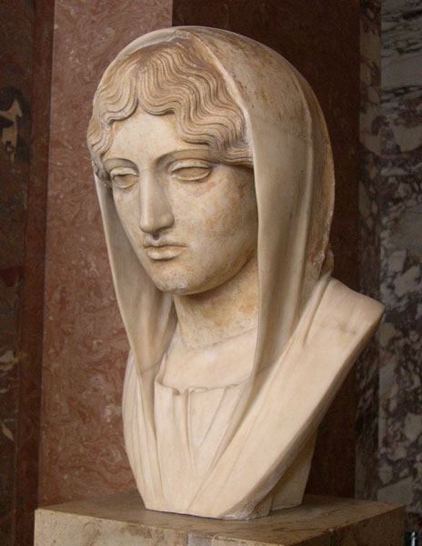 So-called Aspasia, female head of the Sosandra type. Marble, Roman artwork of the 2nd century CE (?) after a Greek original, perhaps the bronze statue by Calamis in the Athenian Acropolis (Pausanias 1:23, 2).